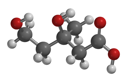 Mevalonsav